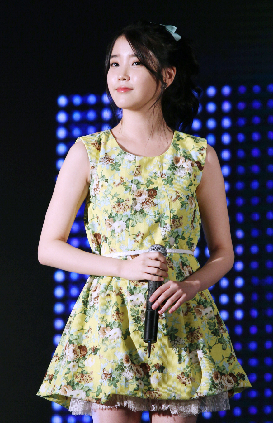 IU at G-star Festival, on August 1, 2014